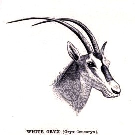 Drawing from "Records of Big Game", Rowland Ward